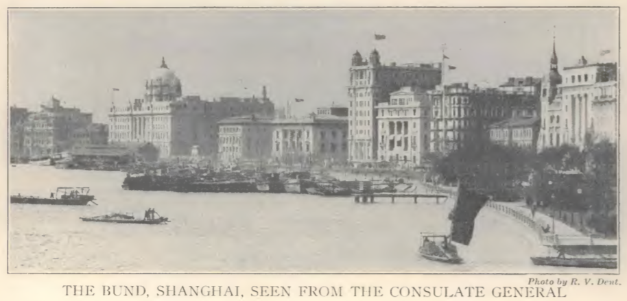 The Bund, Shanghai in 1926 as seen from the US Consulate General